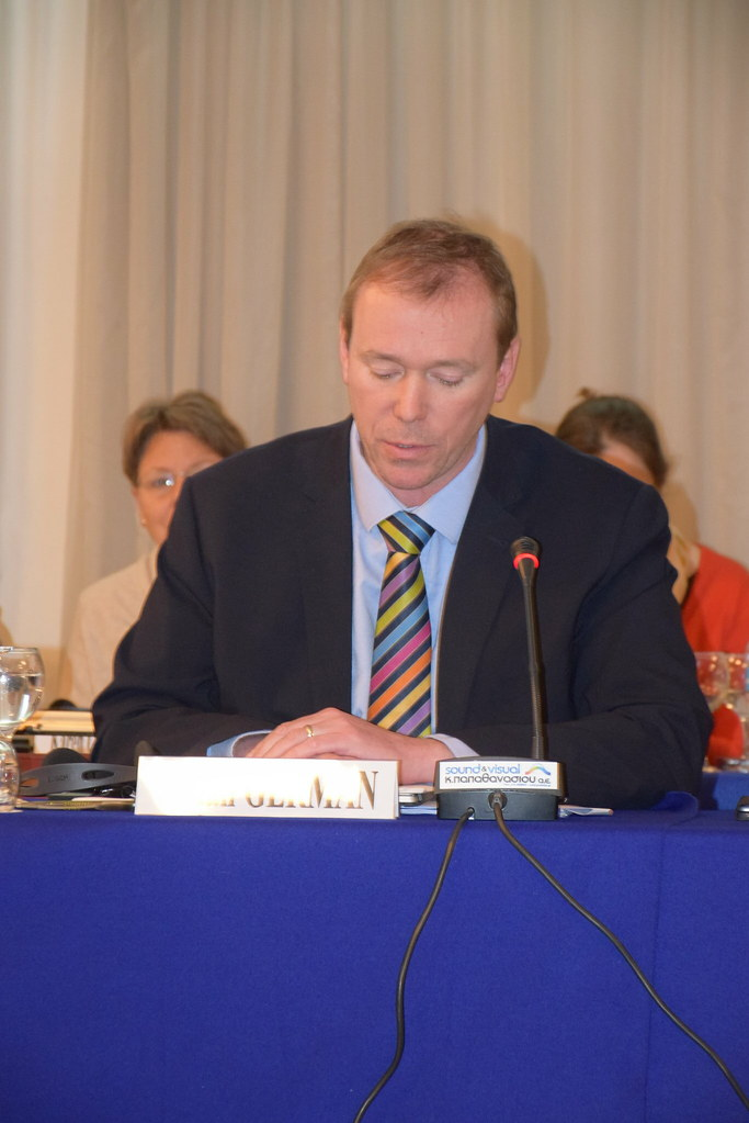 CPMR Political Bureau, Patras, Western Greece, 08 March 2018. Mr Julian German, Deputy Leader of Cornwall Council, provides the perspective of his region on the future of Cohesion policy funding